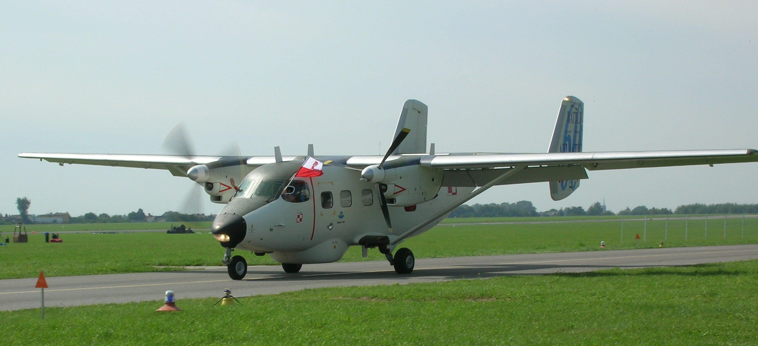 PZL M28 Bryza/Skytruck light utility/transport plane. Bryza is painted as a polish 304. Squadron bomber. Radom Airshow 2005.